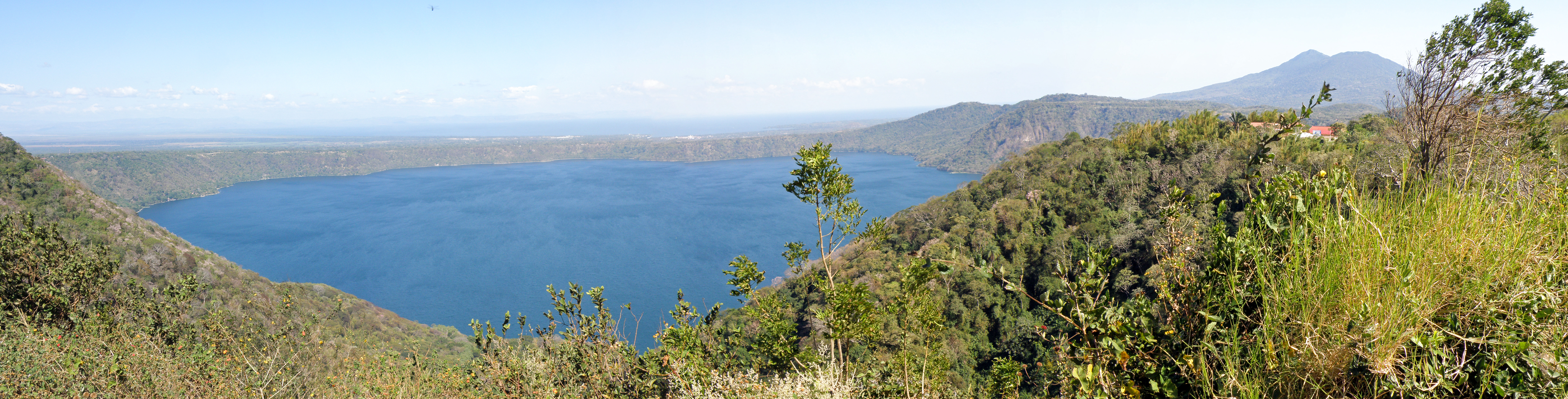 The Apoyo lake (or lagoon) measures 6 km in diameter and is approximately 176 m deep.